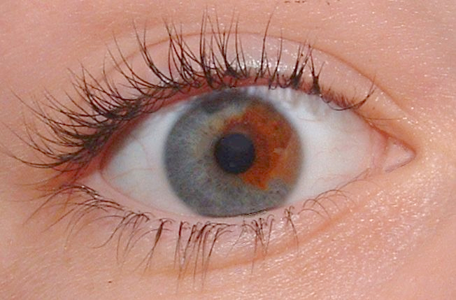 Picture of sectoral heterochromia in right eye of 14-year-old English girl.